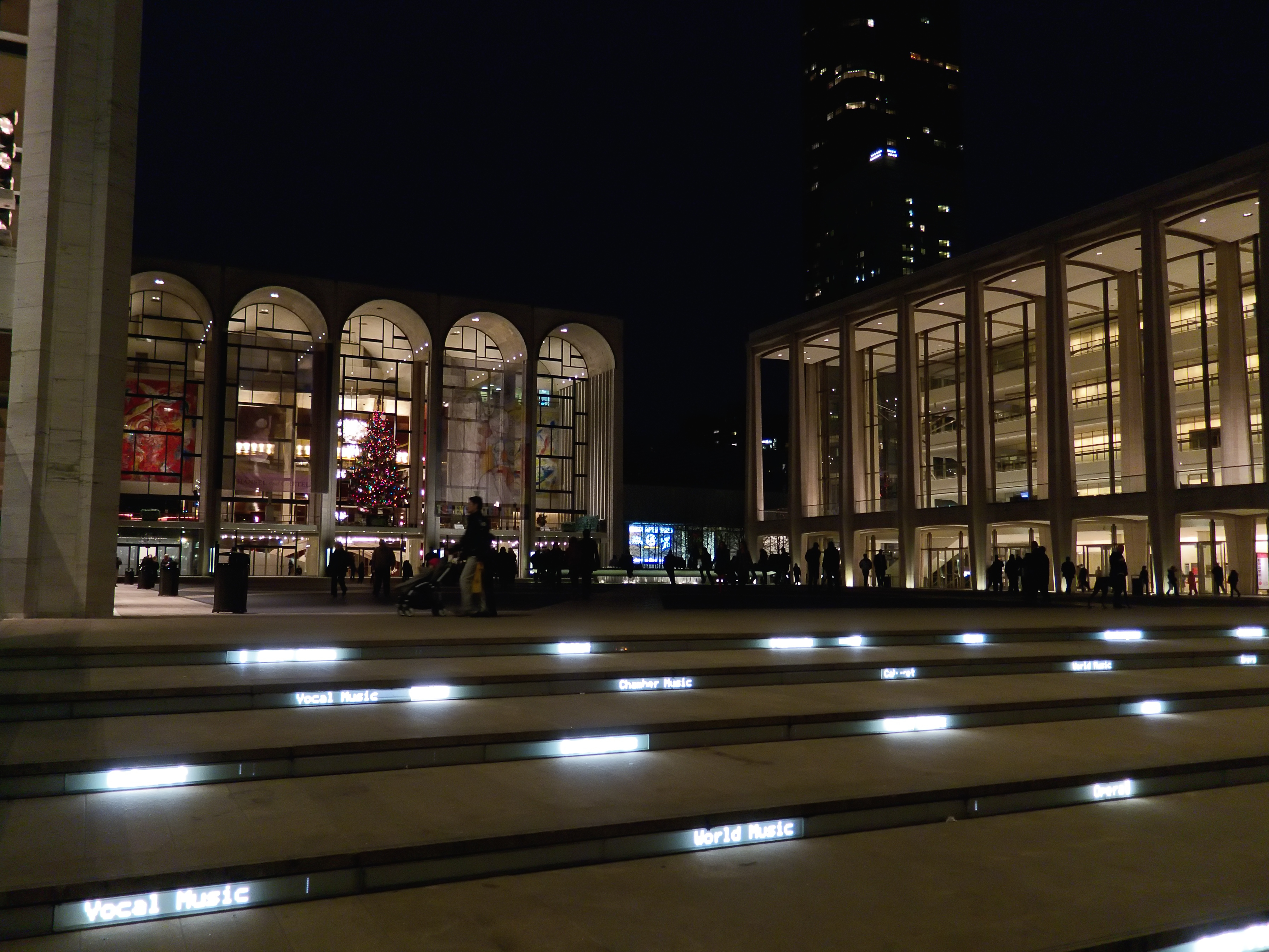 Arriving at Lincoln Center for the December 20, 2011 performance of Faust by the Metropolitan Opera